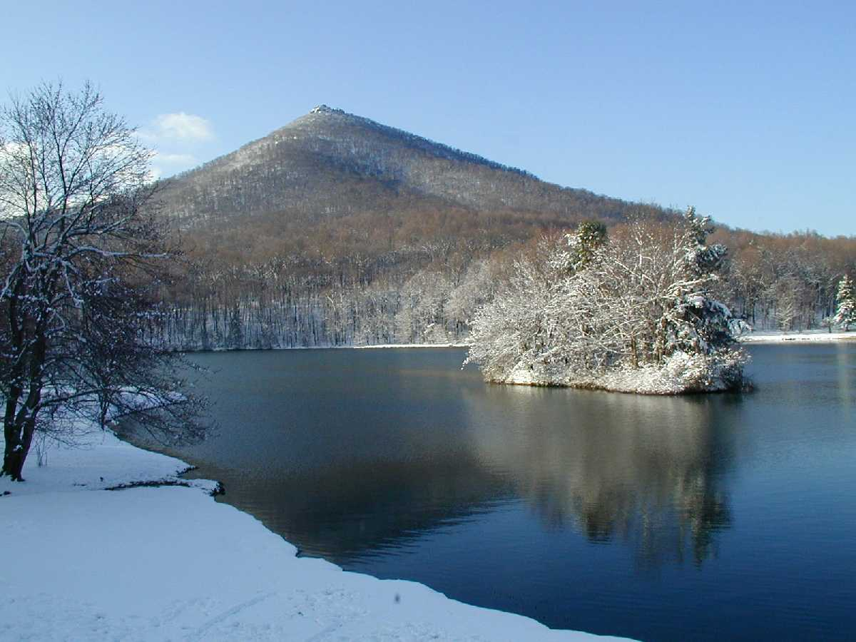 Sharp Top, one of the Peaks of Otter in winter. Taken from Peaks of Otter Lodge.